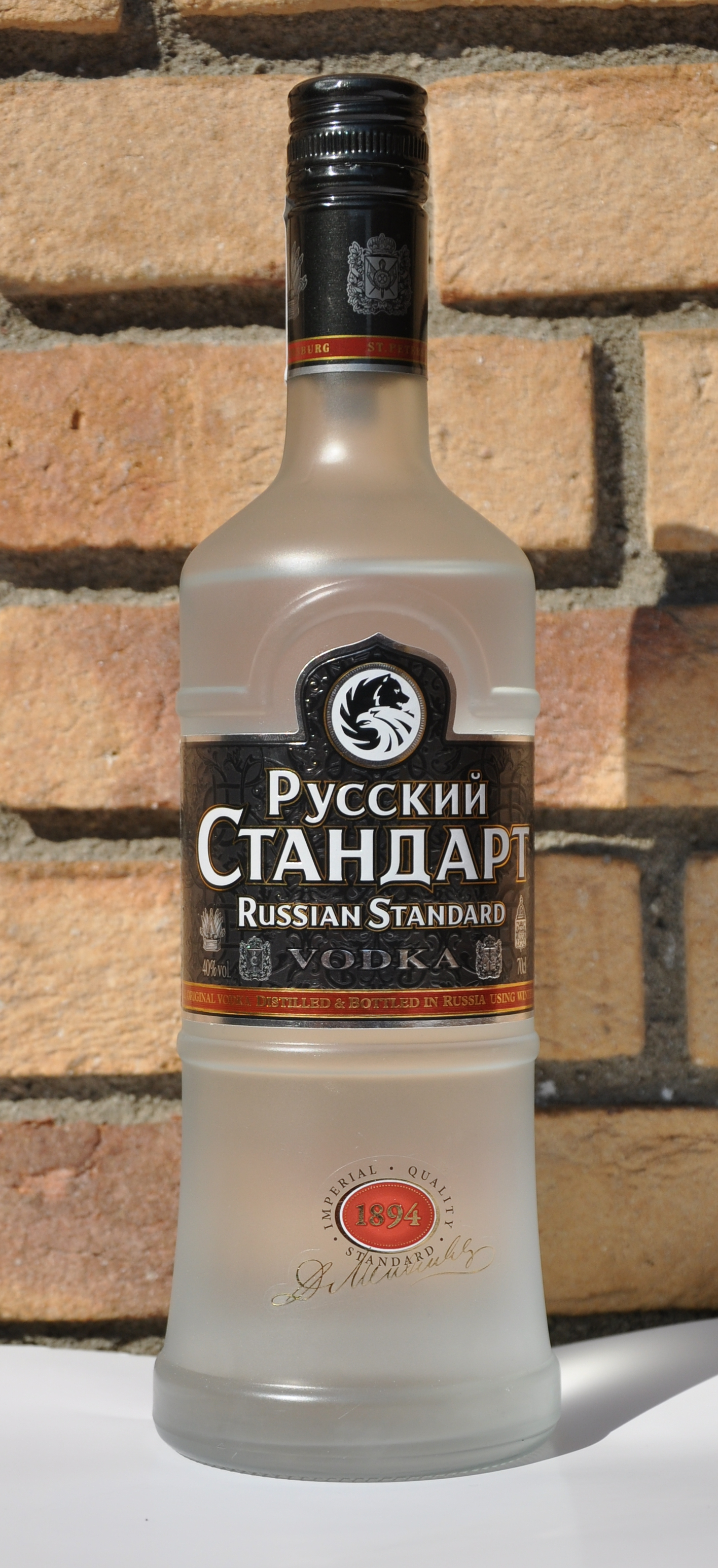 Bottle of Kahlúa